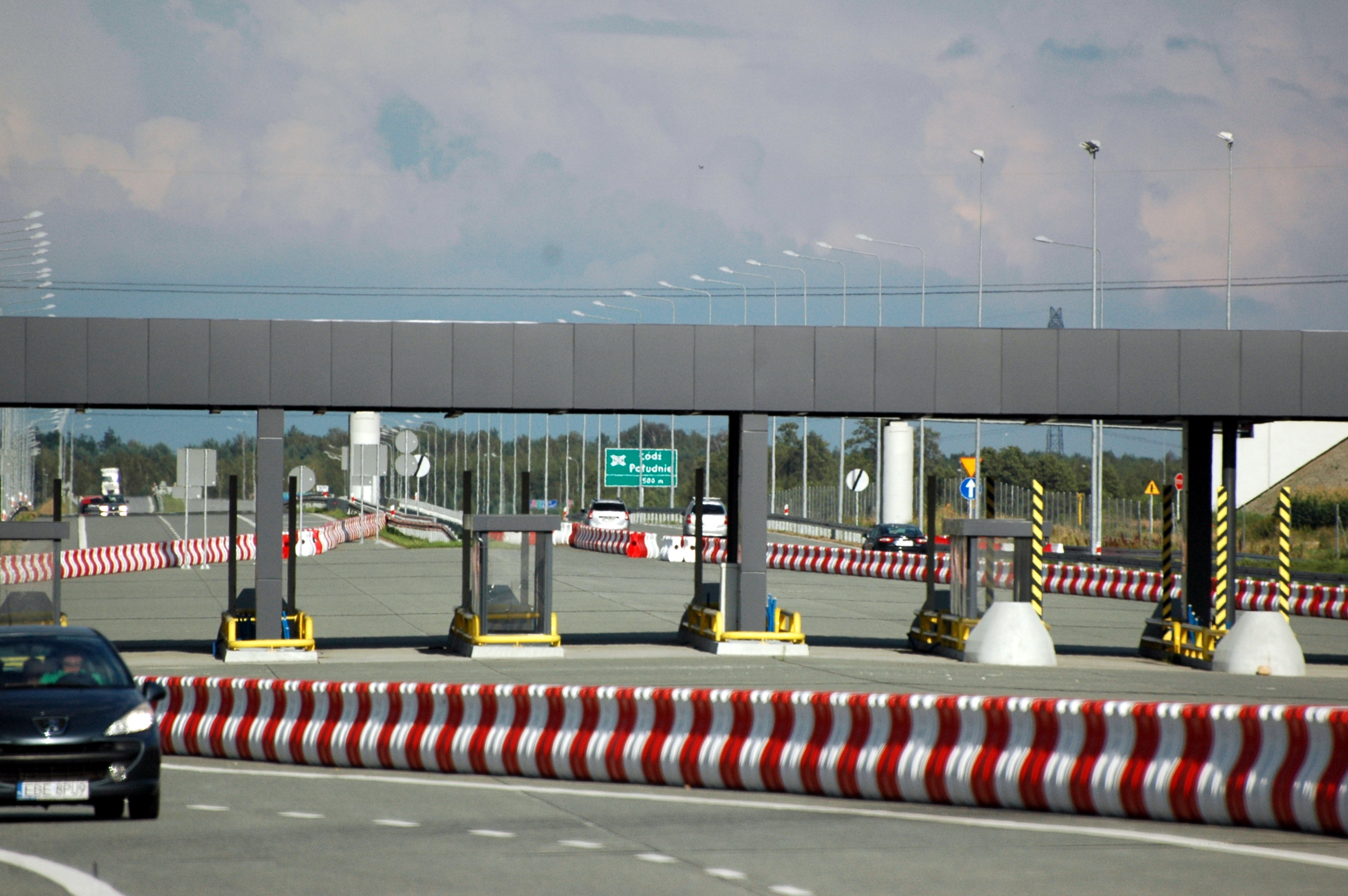 Autostrada A1 - Bramki - Łódź Północ